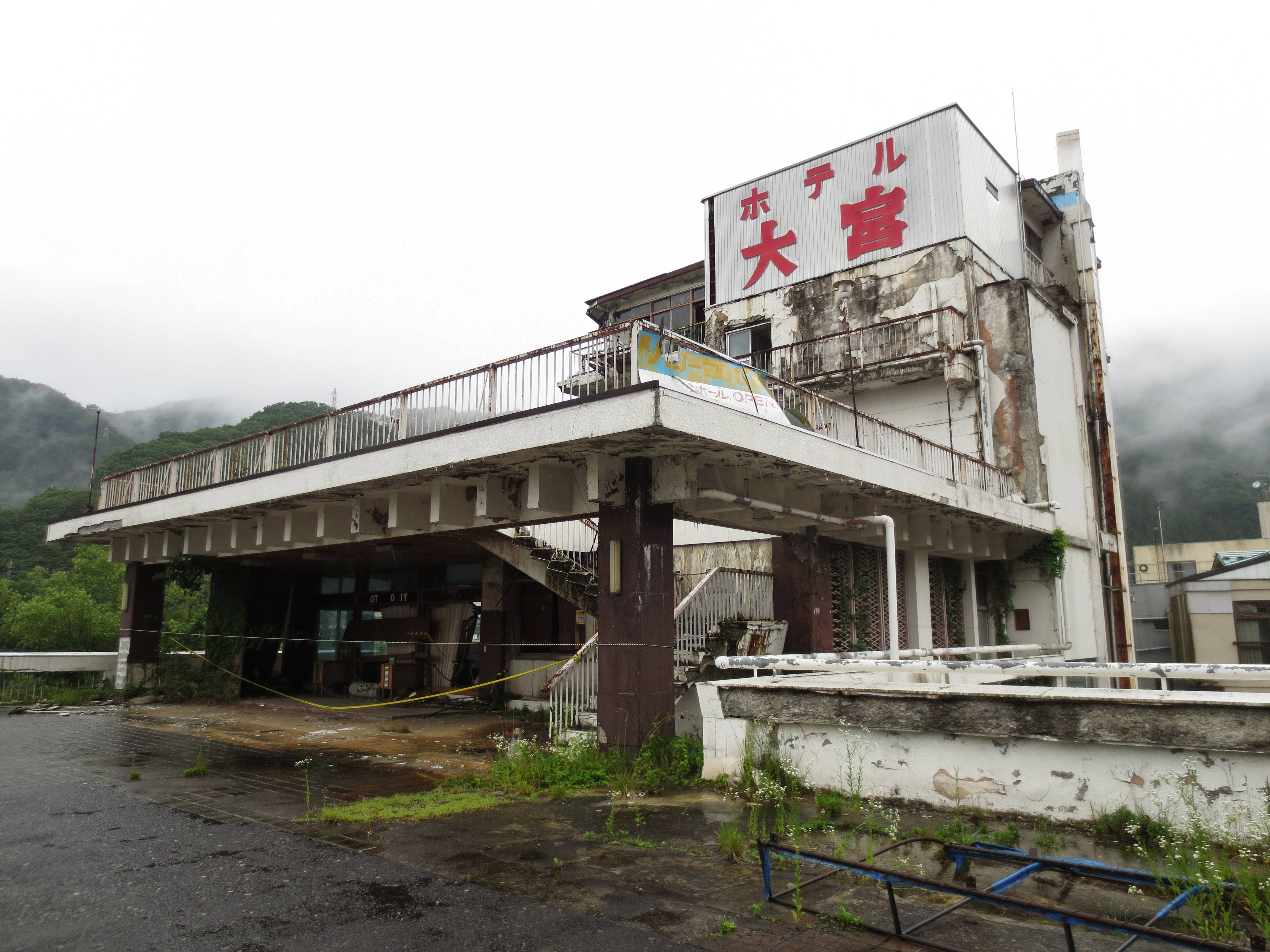 Hotel Ōmiya (Minakami, Gunma).